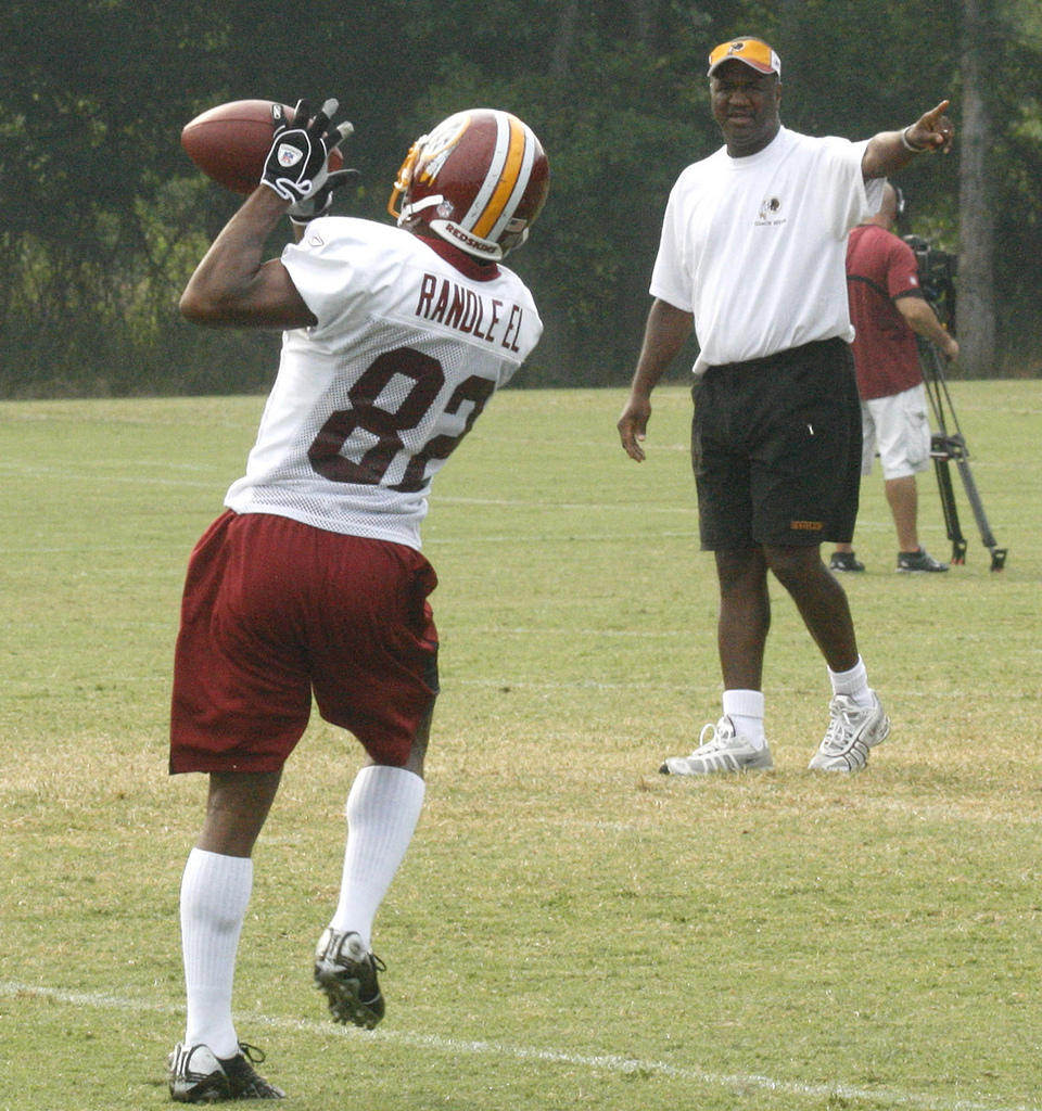 A picture of Washington Redskins WR Antwaan Randle El at training camp